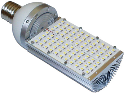 Светодиодные лампы с цоколем Е40 предназначены для установки в стандартные светильники уличного освещения. Лампы Тегас мгновенно разогреваются, освещают без эффекта мерцания, энергопотребление ламп составляет всего 50 Ватт. Корпус ламп – алюминий, термостойкий пластик. Корпус снабжен удобным поворотным механизмом - лампа вкручивается в цоколь, затем позиционируется светящая платформа вместе с радиатором. Оснащение светильников трансформаторами и другими пусковыми механизмами - не требуется. Питание ламп - от источника 220В, 50Гц. Лампы Тегас устойчивы к вибрационным и другим механическим воздействиям - нет нити накала либо других бьющихся элементов. Технические характеристики ламп Тегас с цоколем E-40 Цоколь Е-40 Потребляемая мощность 50Вт Световой поток до 4500Lm Диаграмма освещенности 160° Цвет свечения - Цветовая температура холодный белый - 6500К Напряжение питания 220-230В Номинальное напряжение питания 220В Частота 50-60Гц Диаметр 92мм Высота 259мм Нормативный срок службы 35 000 часов Температурный режим работы от -50 до +80 °C Область применения: • Уличное освещение.